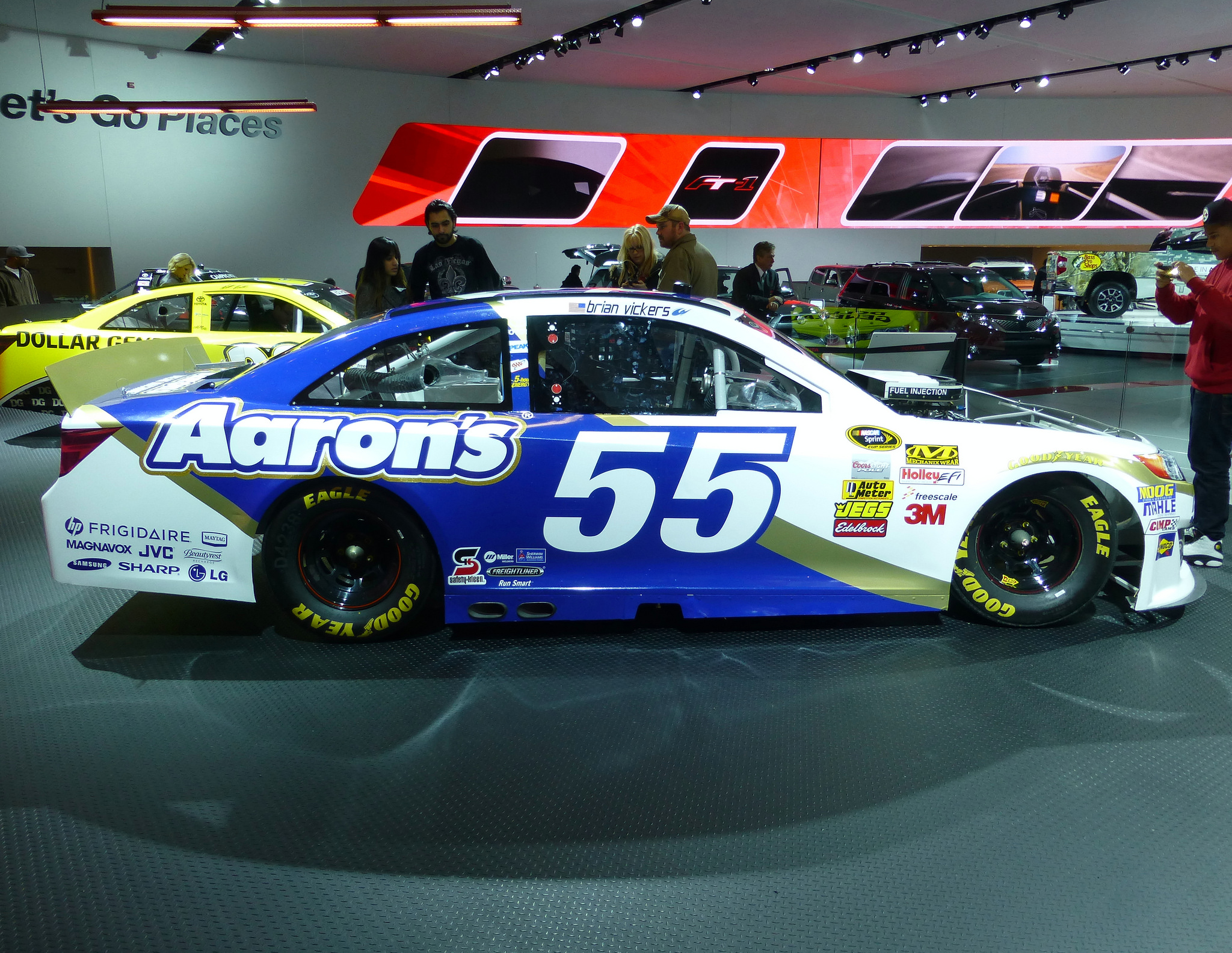 Brian Vickers' Toyota Camry during 2014 North American International Auto Show at Detroit, Michigan.